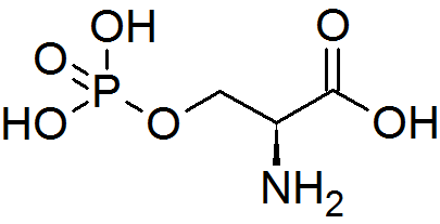 The molecular structure of L-phosphoserine.